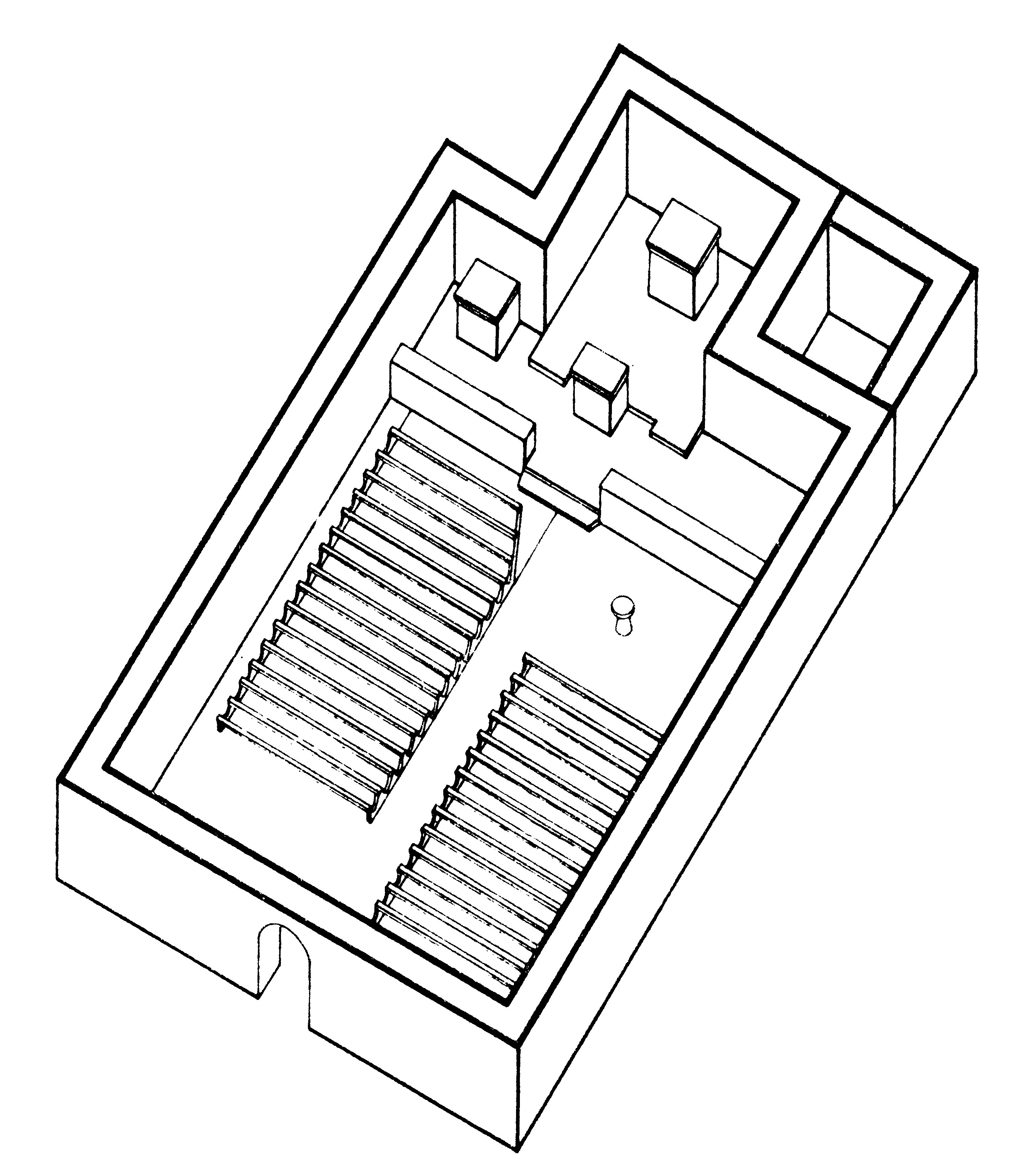 Third stage of construction of the now Reformed Church in Betschwanden, Glarus, Switzerland 1486/1487